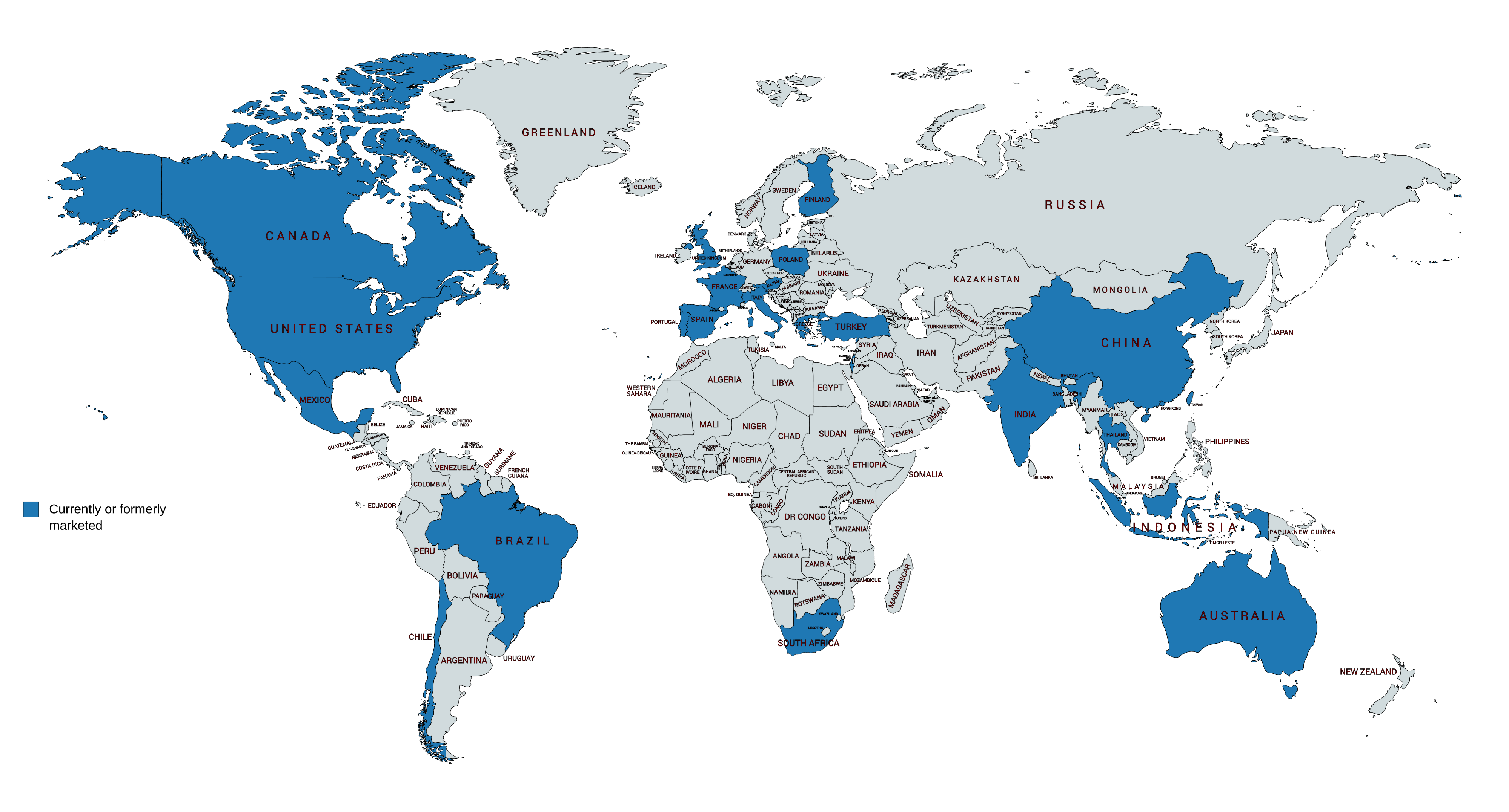 Current or former availability of methyltestosterone.